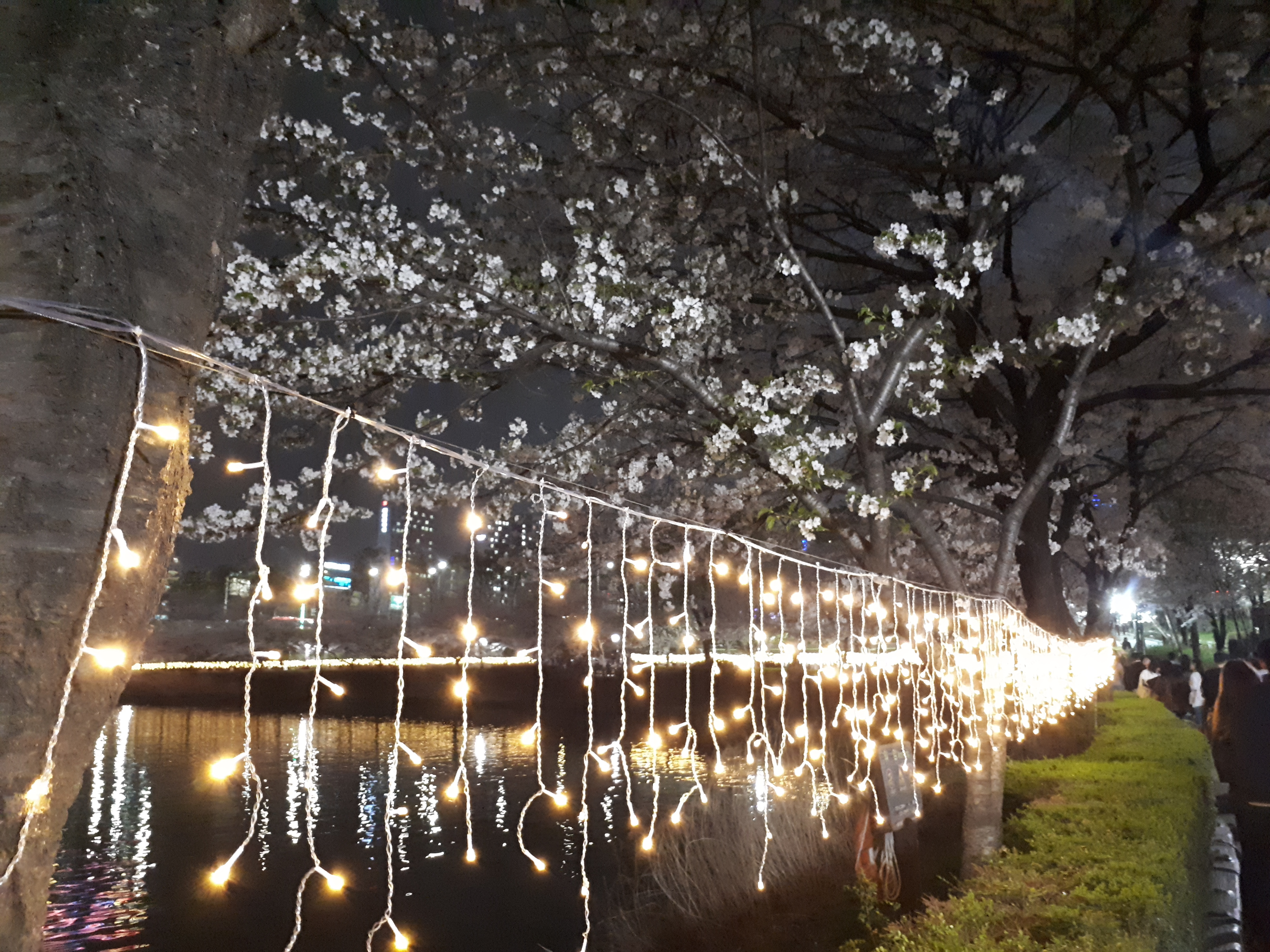 Seokchon Lake